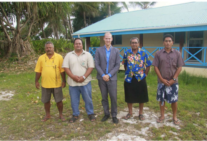 Bestuur_TNFA